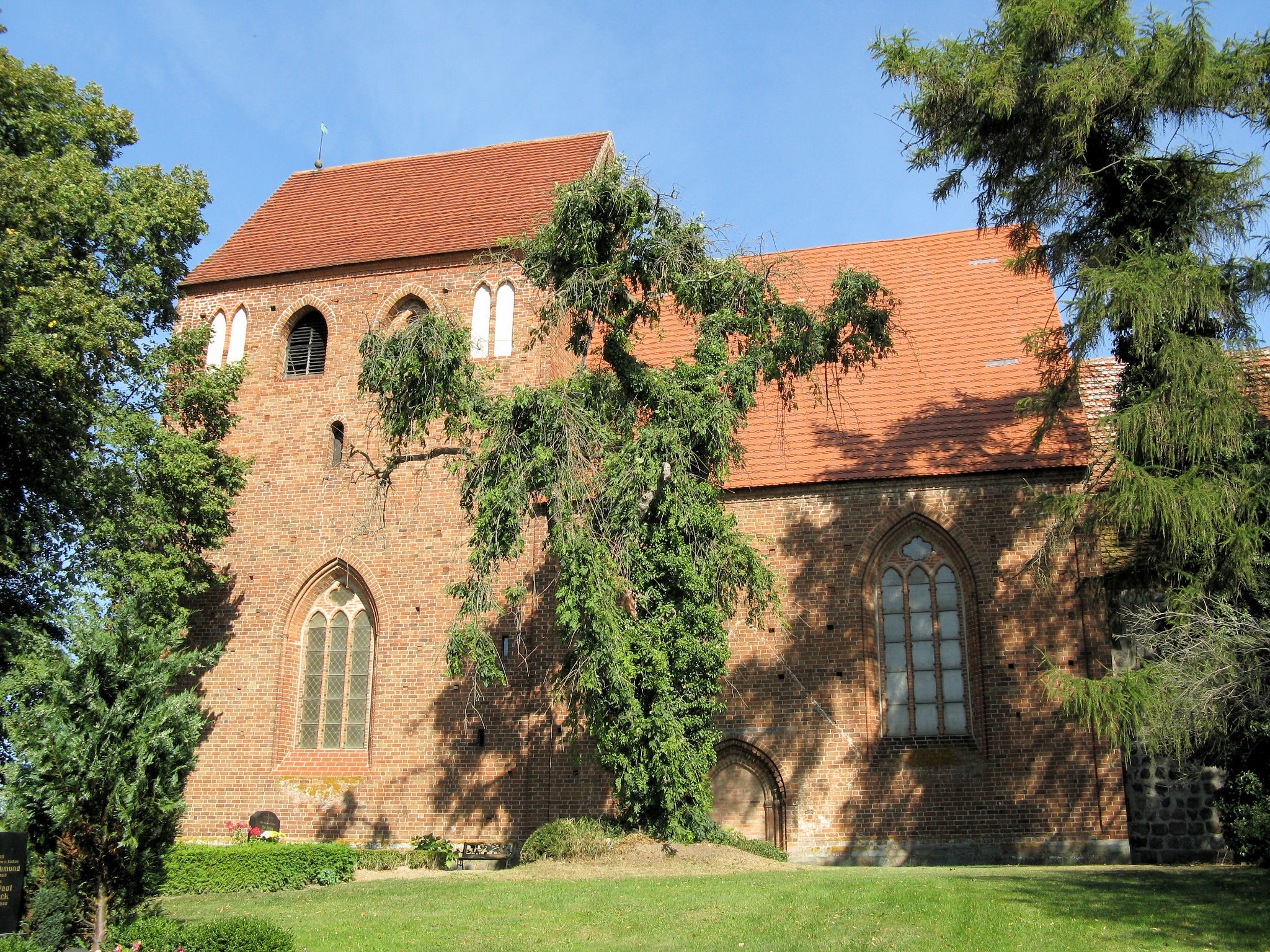 Church in Wattmannshagen, disctrict Güstrow, Mecklenburg-Vorpommern, Germany